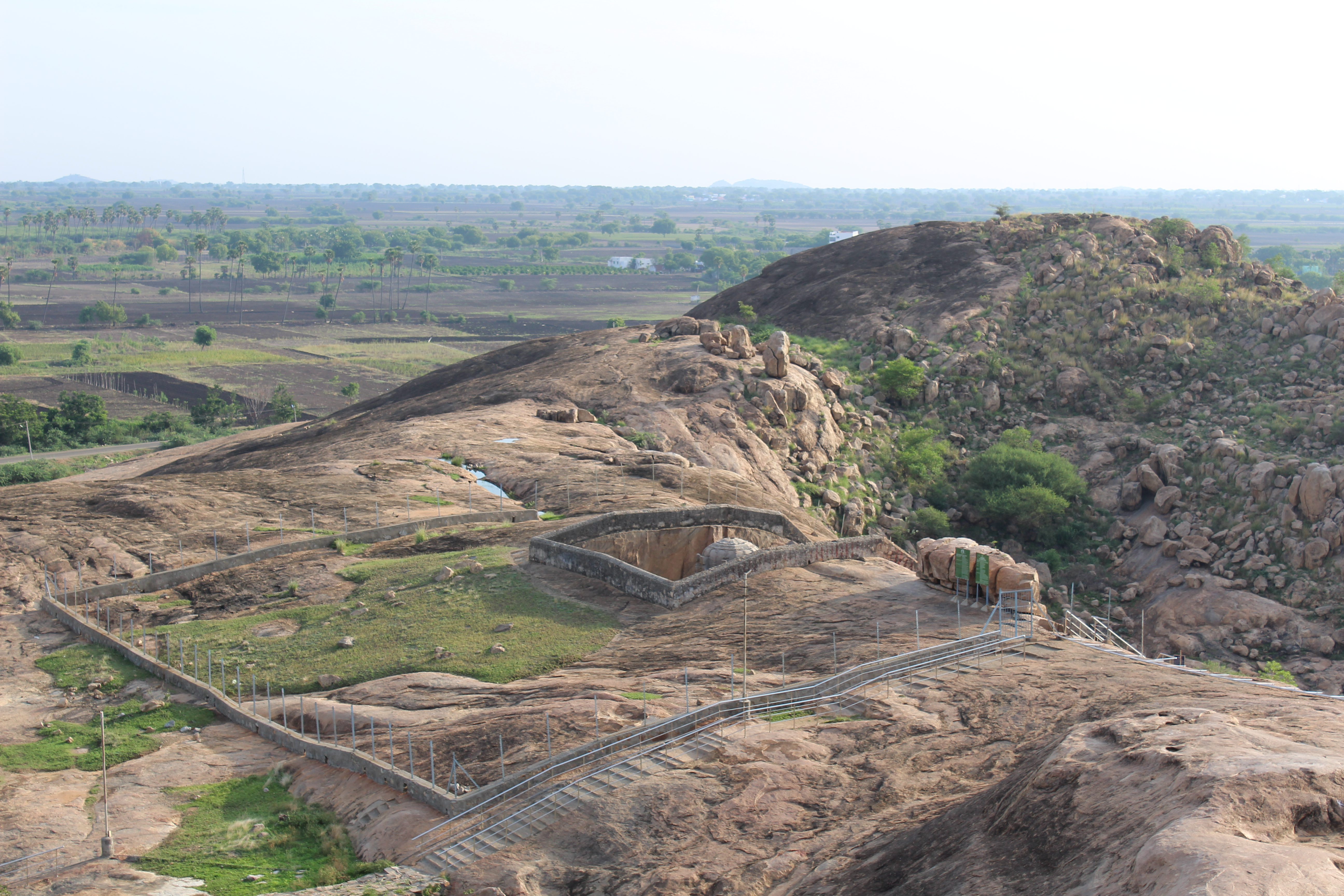 Vettuvan Koil